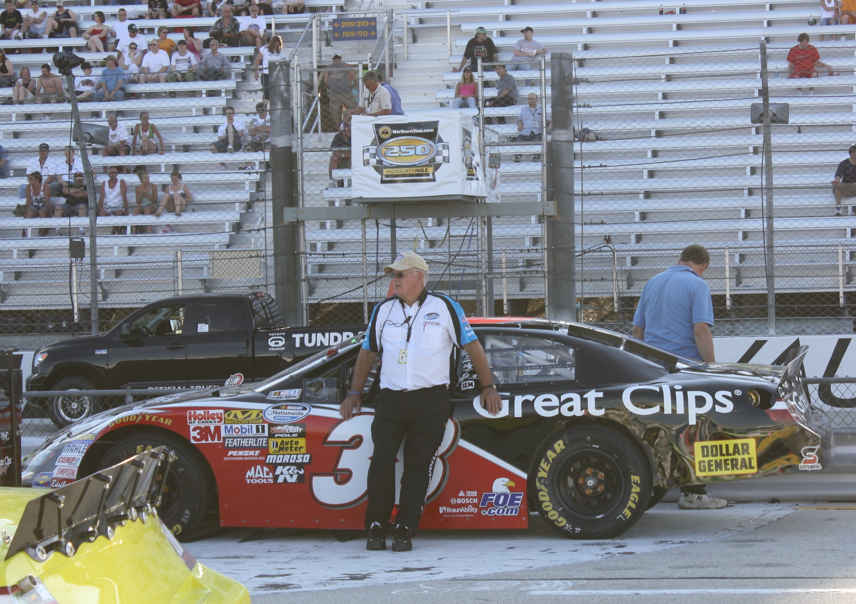 NASCAR driver Jason Lefflers Toyota at the 2009 Northern 250 Nationwide Series race at the Milwaukee Mile.